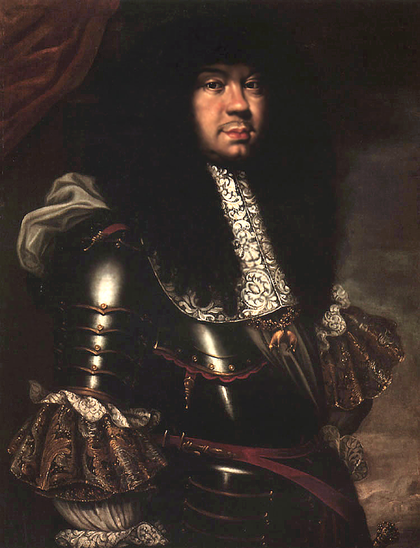 Michael Korybut Wiśniowiecki, King of the Polish-Lithuanian Commonwealth.